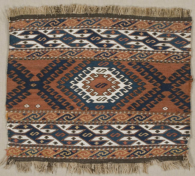 Borchaliu Mafrash Panel Georgia. Late 19th century. Wool and cotton. 21"x 17." Soumak. This panel is in excellent condition.